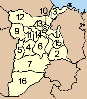 Map of Phunphin district, Surat Thani province, with the communes (tambon) numbered Tha Kham (ท่าข้าม) Tha Sathon (ท่าสะท้อน) Li Let (ลีเล็ด) Bang Maduea (บางมะเดื่อ) Bang Duean (บางเดือน) Tha Rong Chang (ท่าโรงช้าง) Krut (กรูด) Phunphin (พุนพิน) Bang Ngon (บางงอน) Si Wichai (ศรีวิชัย) Nam Rop (น้ำรอบ) Ma Luan (มะลวน) Hua Toei (หัวเตย) Nong Sai (หนองไทร) Khao Hua Khwai (เขาหัวควาย) Ta Pan (ตะปาน)